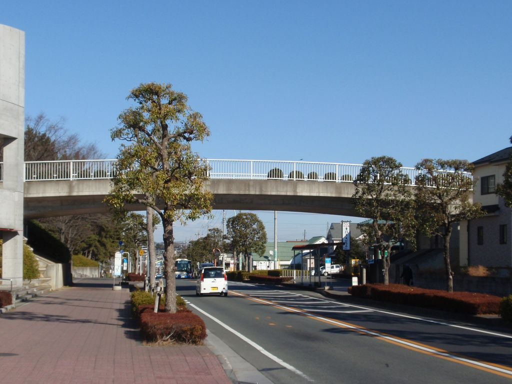 Nijinohashi bridge. / Higashimatsuyama-city, Saitama-pref, Japan